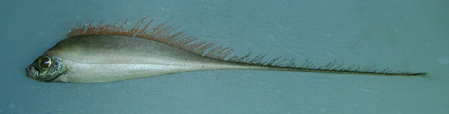 Desmodema polystictum collected in Pkistan during the Dr Fridtjof Nansen Cruise.